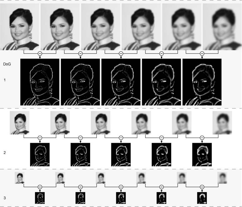 Image vision : Difference of Gradients example.